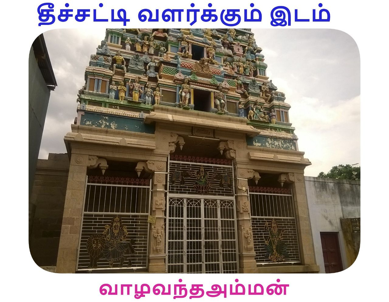 Image of Vazhavantha Amman temple at Aruppukottai